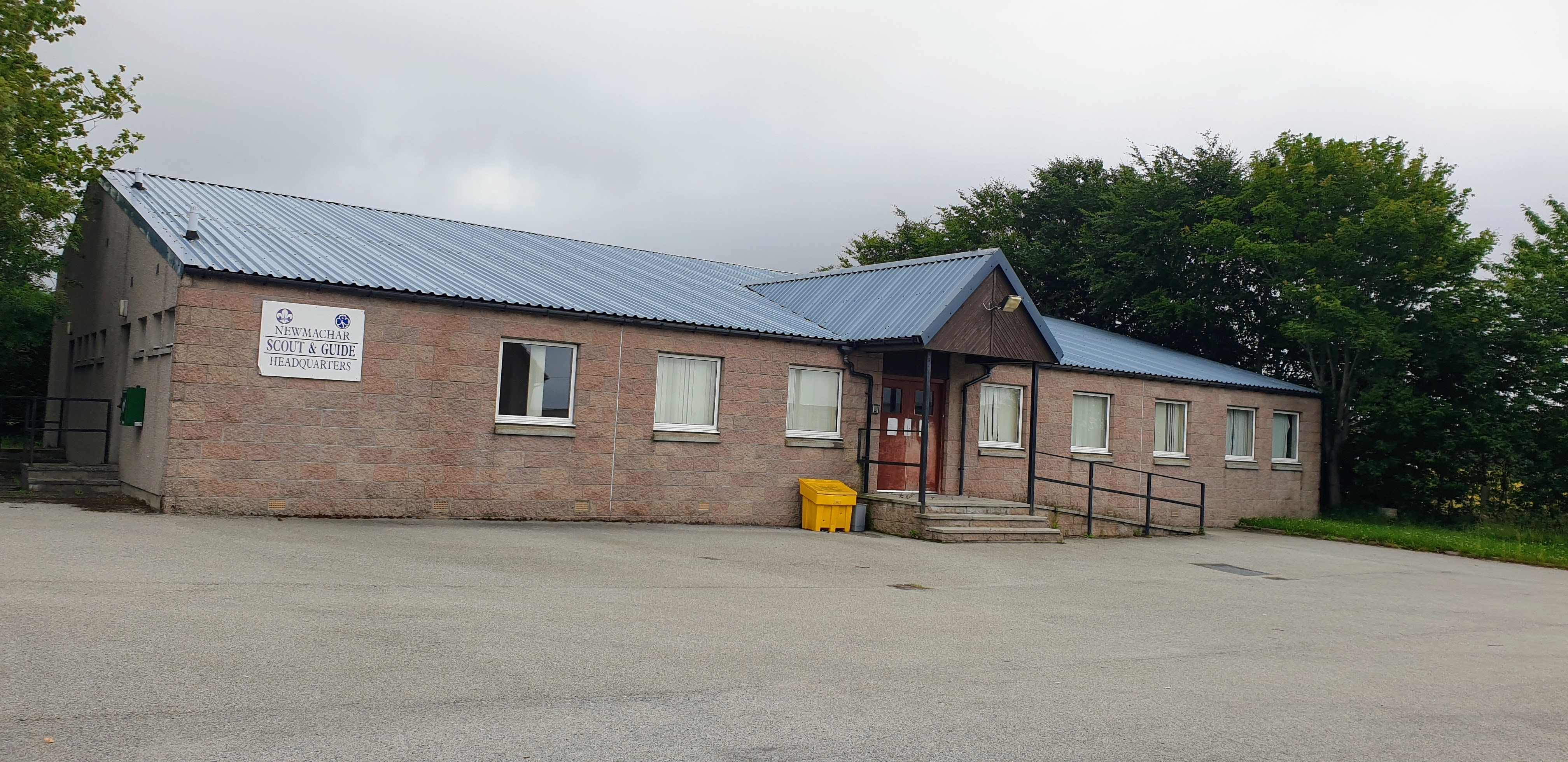 Newmachar Scout and Guide Hall shown from car park